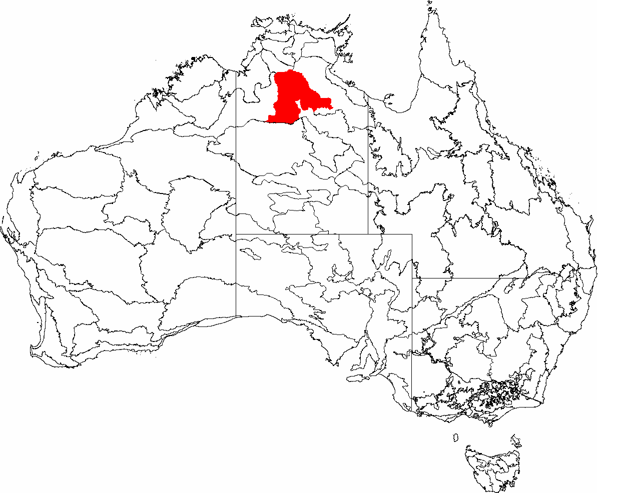 This is a map of the Interim Biogeographic Regionalisation of Australia (IBRA), with state boundaries overlaid. The Sturt Plateau region is shown in red.